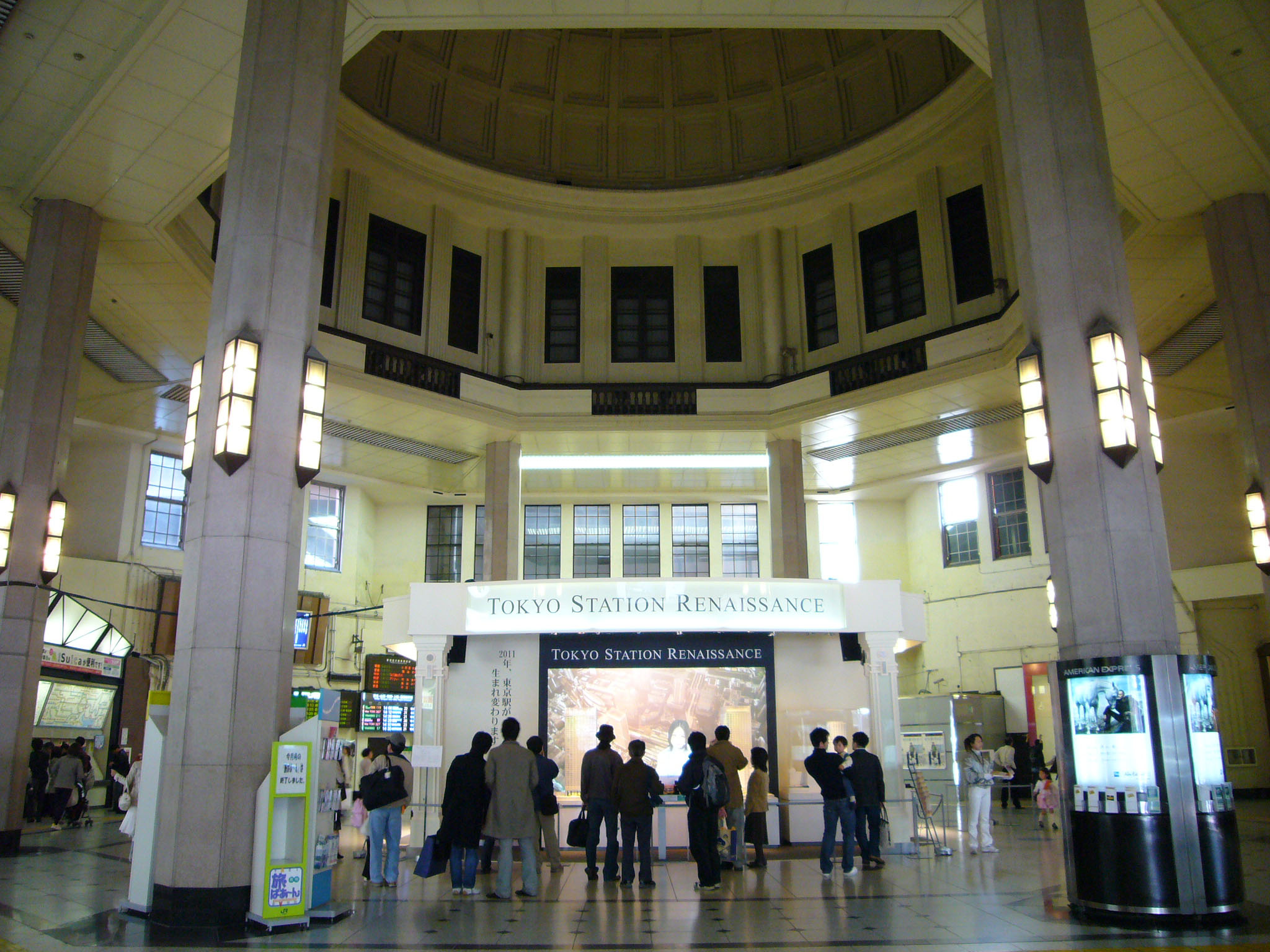 Interior (pre-restoration) of dome interior and lobby of the Tokyo Station (Marunouchi building).